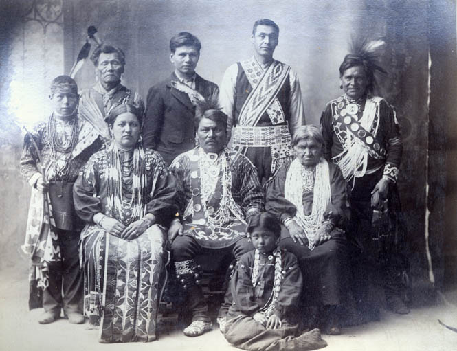 Winnebago Indian Congress Members, 1898 Courtesy, Omaha Public Library